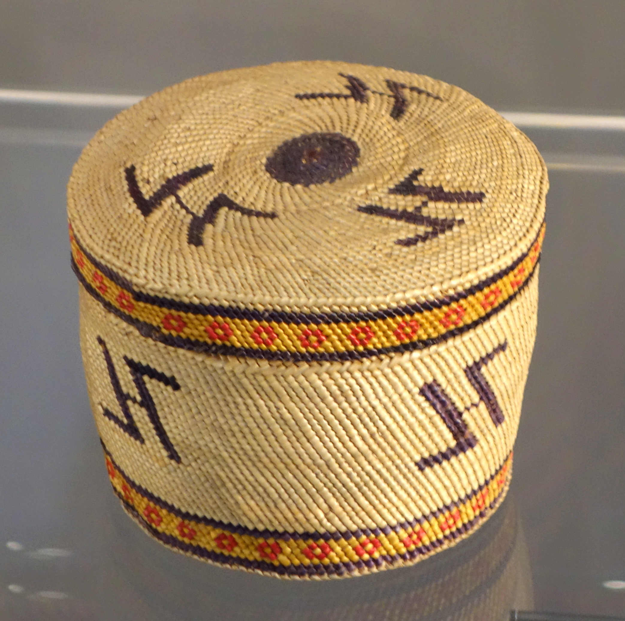 Exhibit in the Chazen Museum of Art, University of Wisconsin-Madison, Madison, Wisconsin, USA. This artwork is old enough so that it is in the public domain.